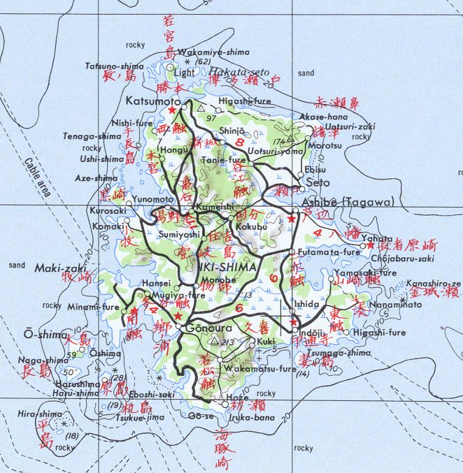 topographic map of Iki Island